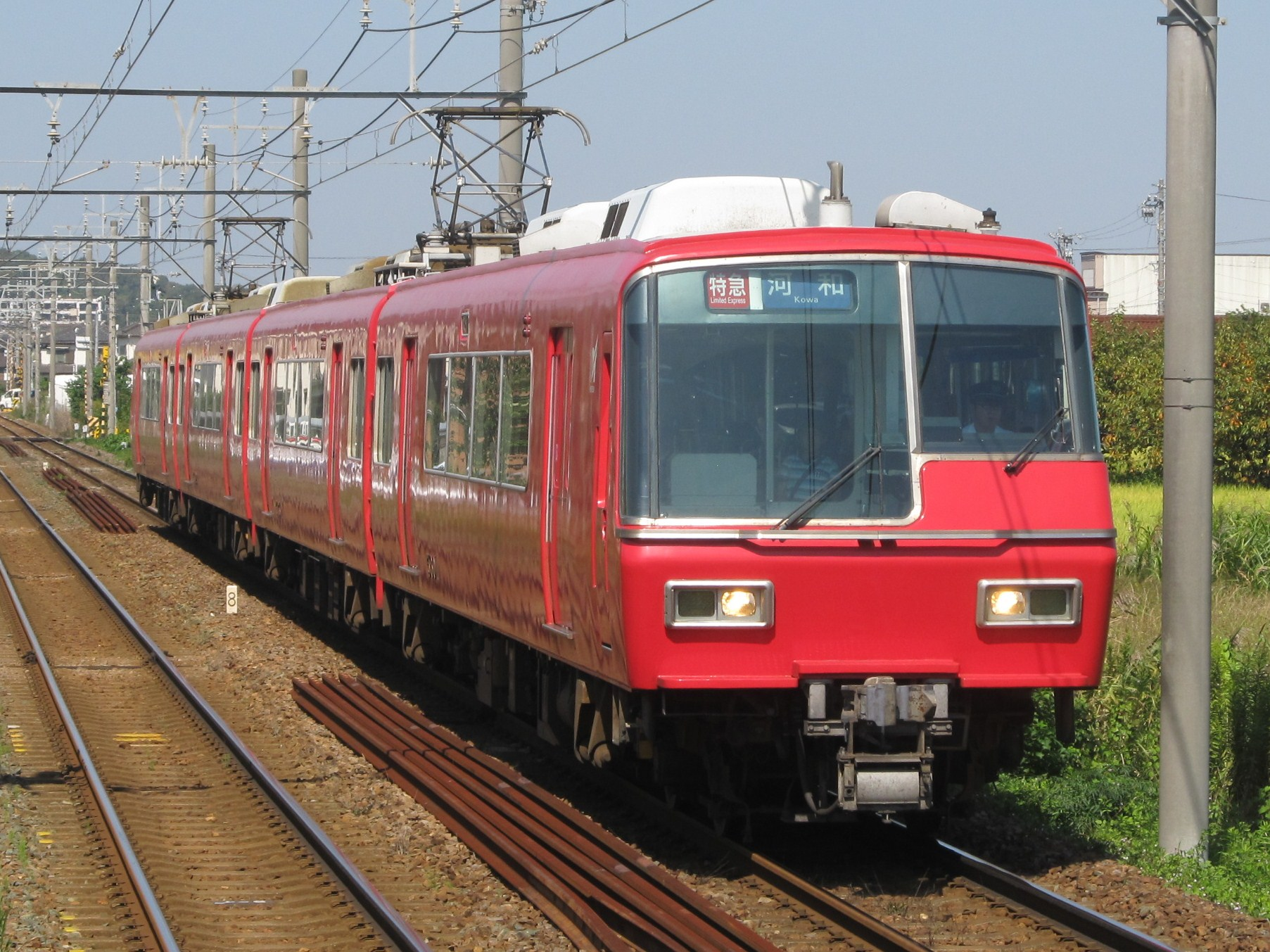 Meitetsu 5600 series. Limited Express bound for Kōwa.